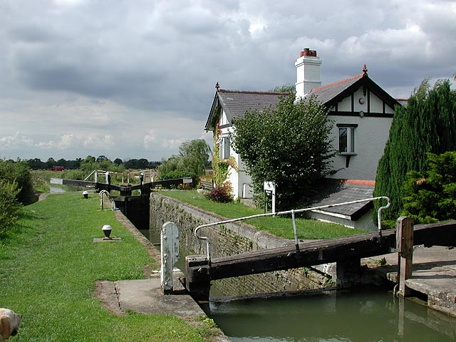 Lock and cottage on Aylesbury Arm of Grand Union. A lock and its attendant cottage on the Aylesbury Arm of the Grand Union Canal near Marsworth